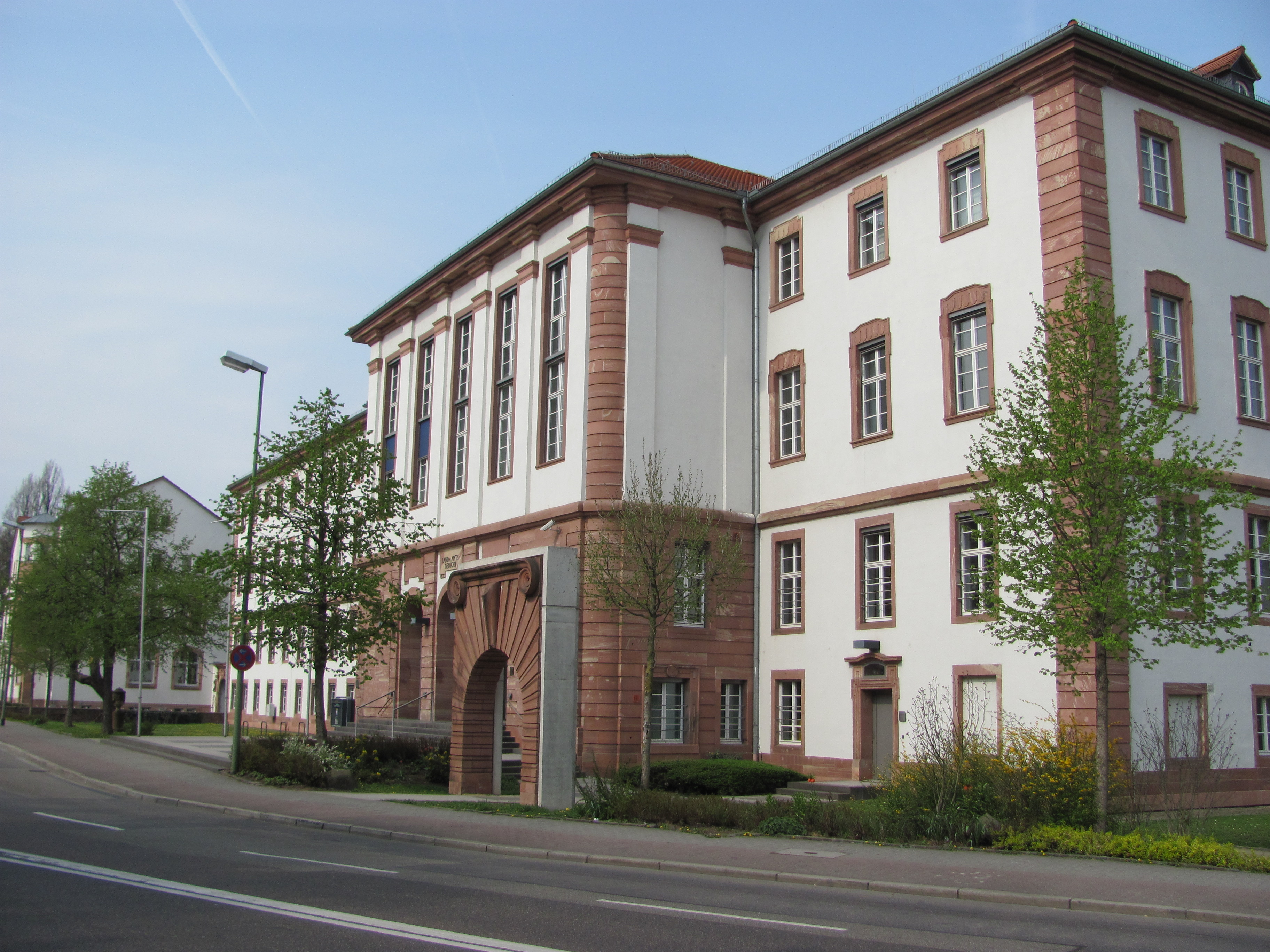 Court building Hanau